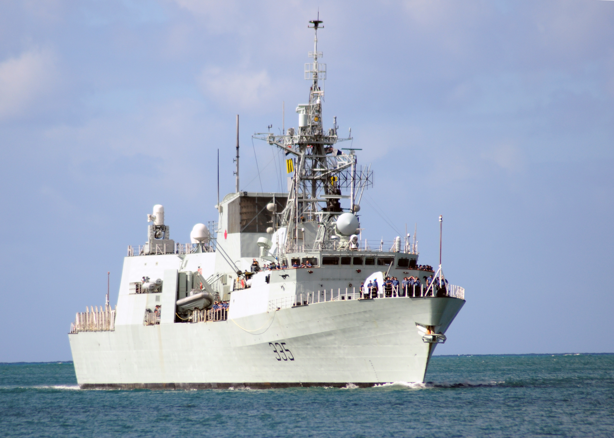 PEARL HARBOR (June 24, 2010) The Canadian navy Halifax-class frigate HMCS Calgary (FFH 335) pulls into Joint Base Pearl Harbor-Hickam, Hawaii, to support Rim of the Pacific (RIMPAC) 2010 exercises. RIMPAC is a biennial, multinational exercise designed to strengthen regional partnerships and improve multinational interoperability. (U.S. Navy photo by Mass Communication Specialist 2nd Class Jon Dasbach/Released)